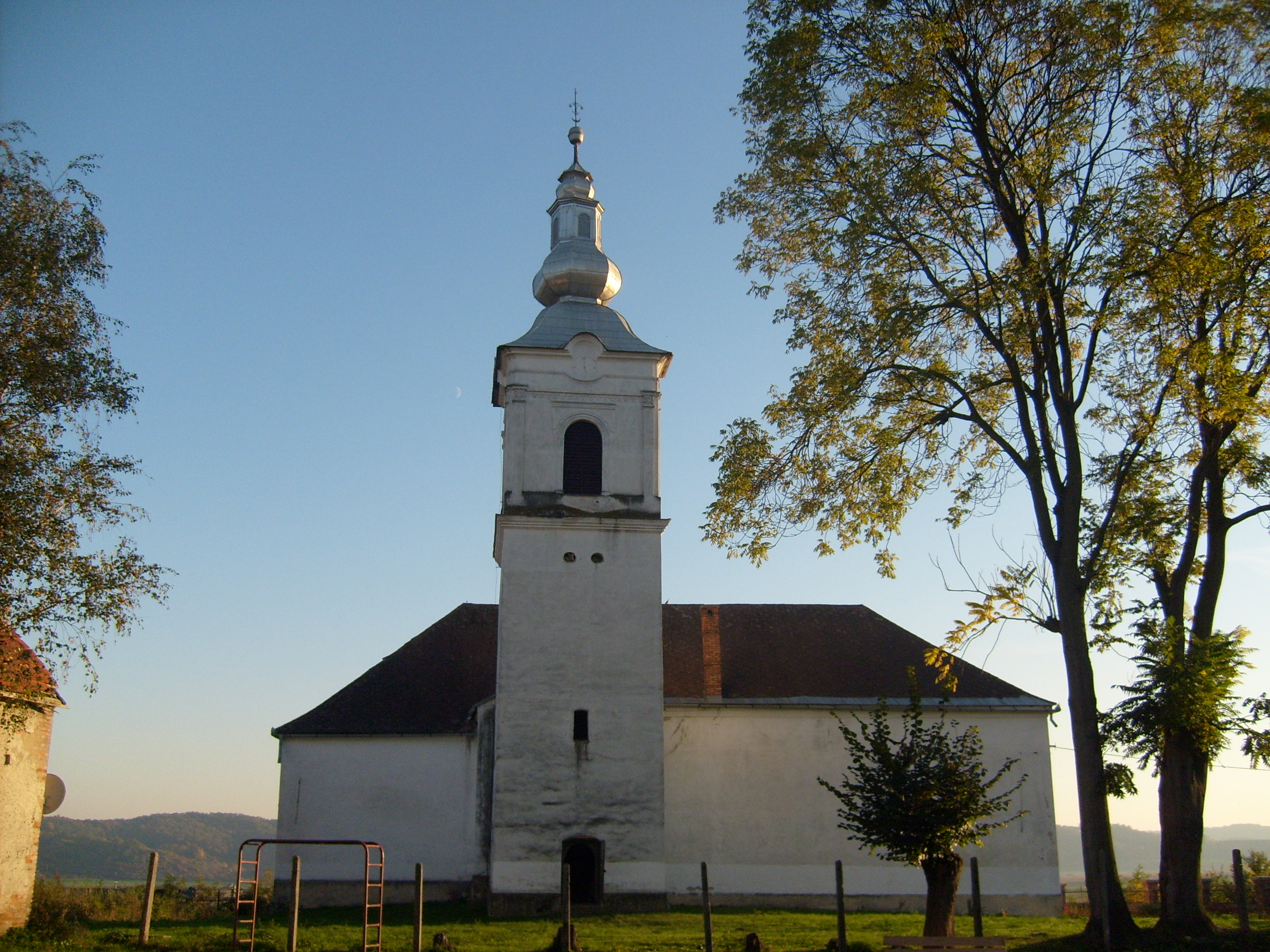 Reformed Church in the Rimaszecs